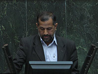 Ali Borughani